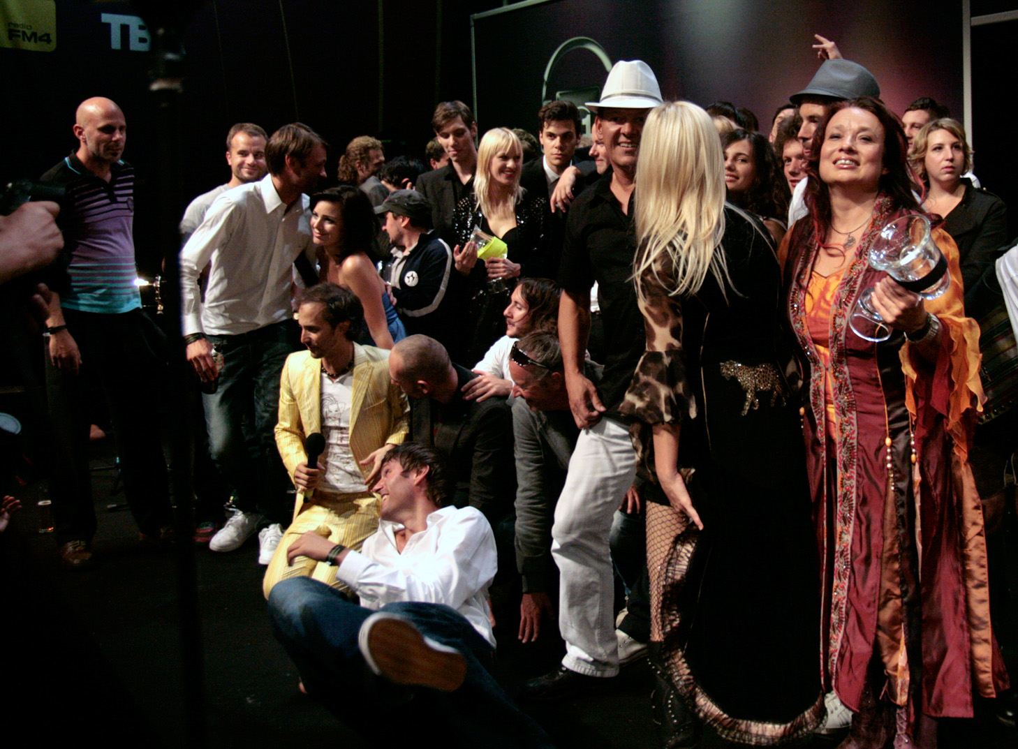 Winners of the Amadeus Austrian Music Award (Museumsquartier, Vienna)